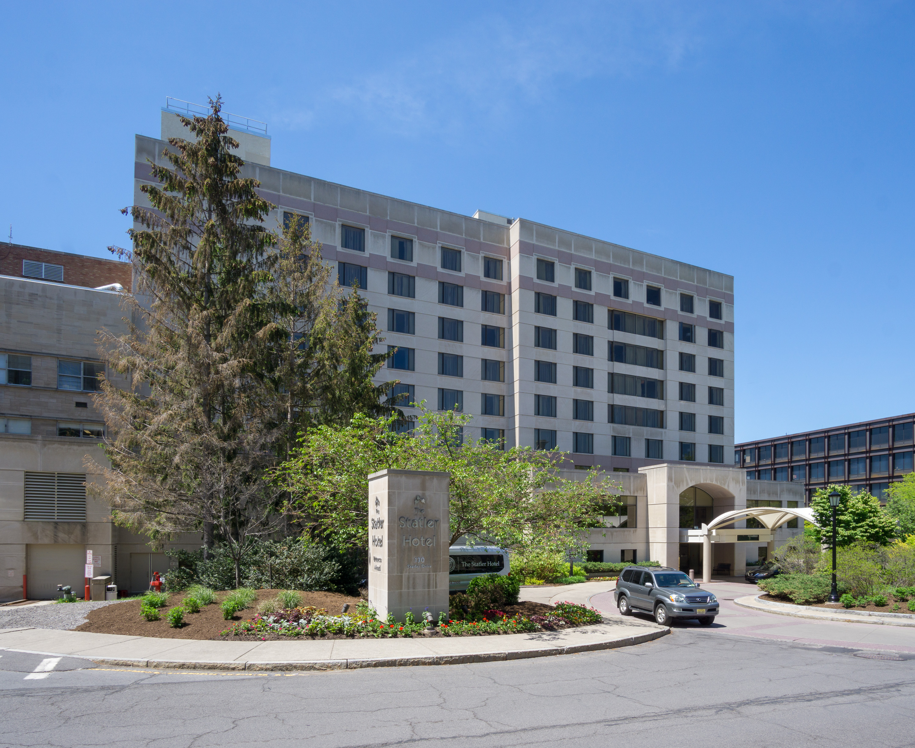 Entrance to Statler Hotel on Statler Drive. Uris Hall slightly visible at far right. Cornell University, Ithaca, NY